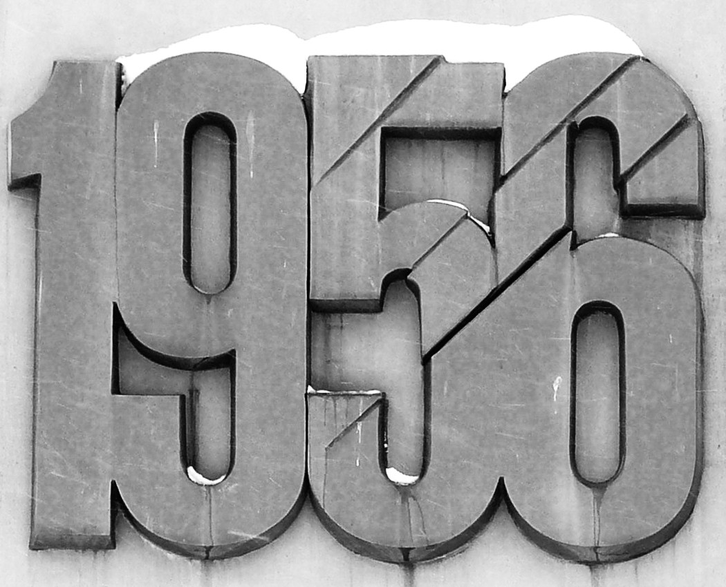 1956 Year in Poznan - Anticomunismus Uprising. Detail of Monument.